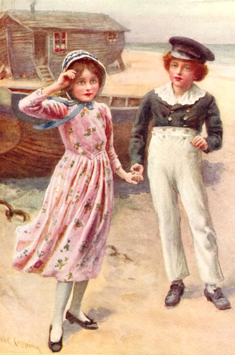 David and Emily on the beach at Yarmouth (Harold Copping)